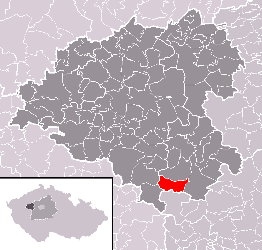 Location of Karlova Ves municipality within Rakovník District and (identical) administrative area of Rakovník as a Municipality with Extended Competence.